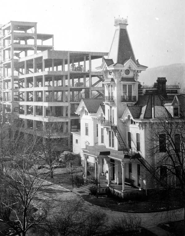 The afternoon after the fire, the board of trustees voted to start construction of a new $300,000 facility to be built from plans that had been on the drawing board since 1929.